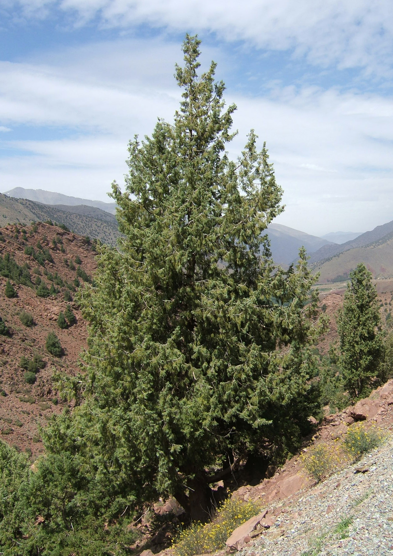 Cupressus atlantica, Oued-n-Fiis valley, Morocco